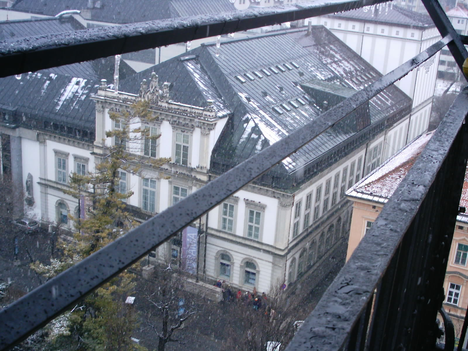 Slovenian national theatre Maribor (1864)